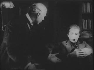 Screenshot of the movie adaptation of the Sherlock Holmes' story The Man With the Twisted Lip with Eille Norwood playing Sherlock Holmes.